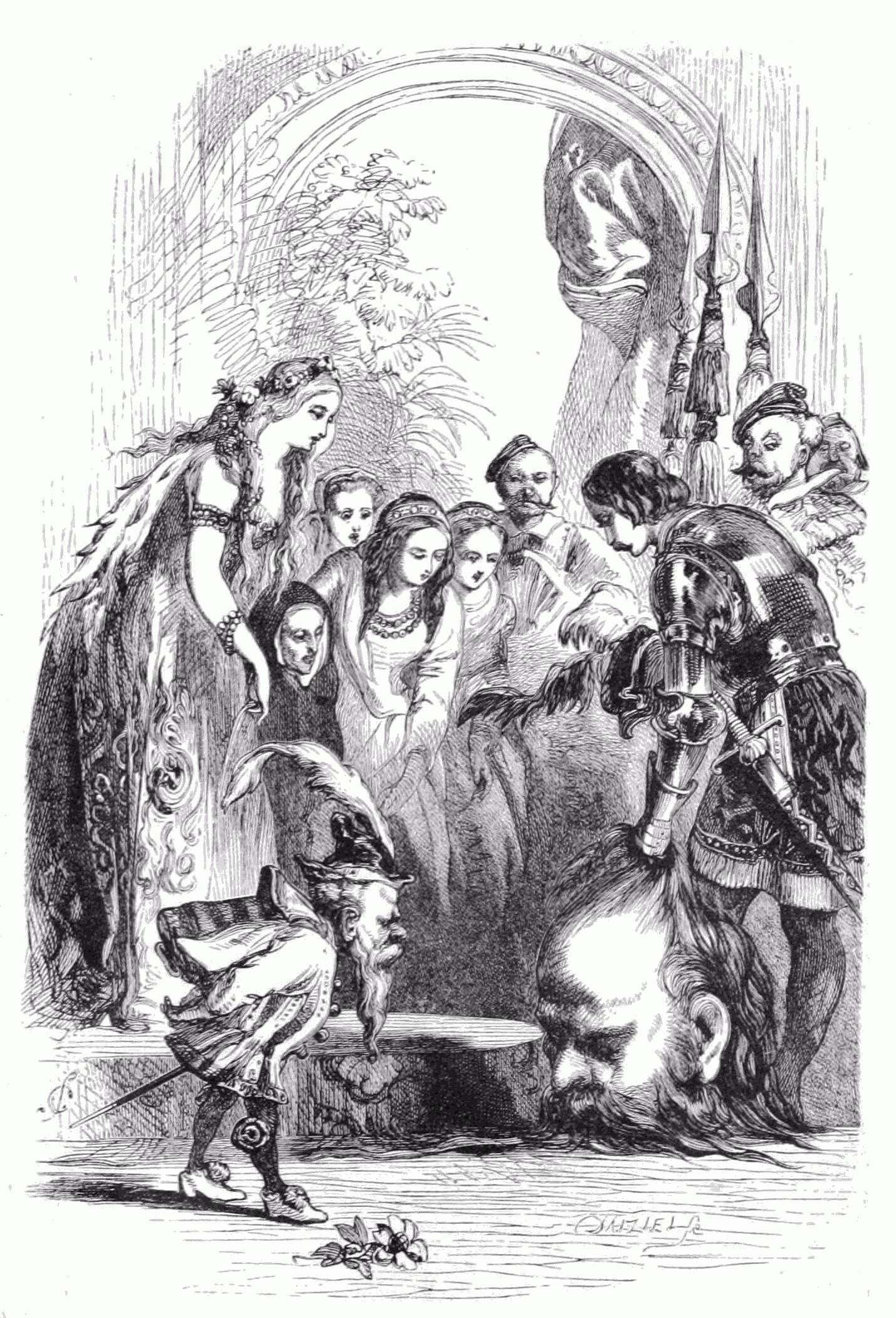 Illustration for a fairy tale by Madame d'Aulnoy